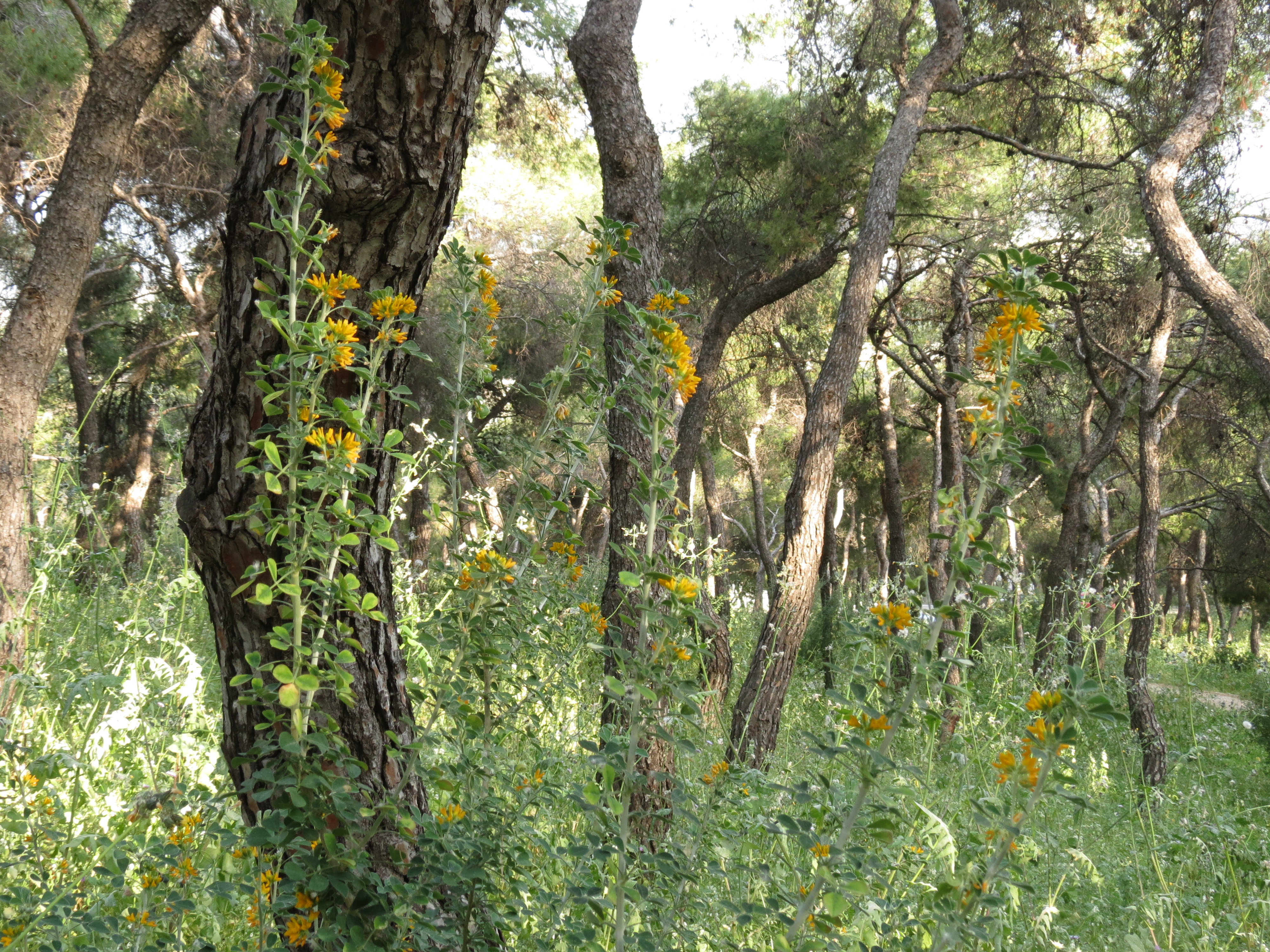 Medicago arborea L., Mount Lycabettus, Athens, Greece, 2 April 2014